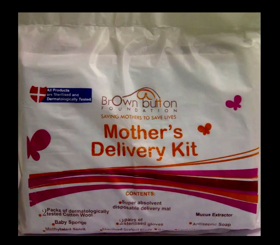 Mothers Delivery Kit as given by the Brown Button charity started by Adepeju Jaiyeoba in Nigeria Mother's Delivery Kit has been developed by the medical team of the Brown Button Foundation and is designed to connect women to the life saving supplies they need at childbirth. The extremely affordable kits, which come in variants of the improved regular pack and combo pack, contain clean and safe delivery essentials for mothers